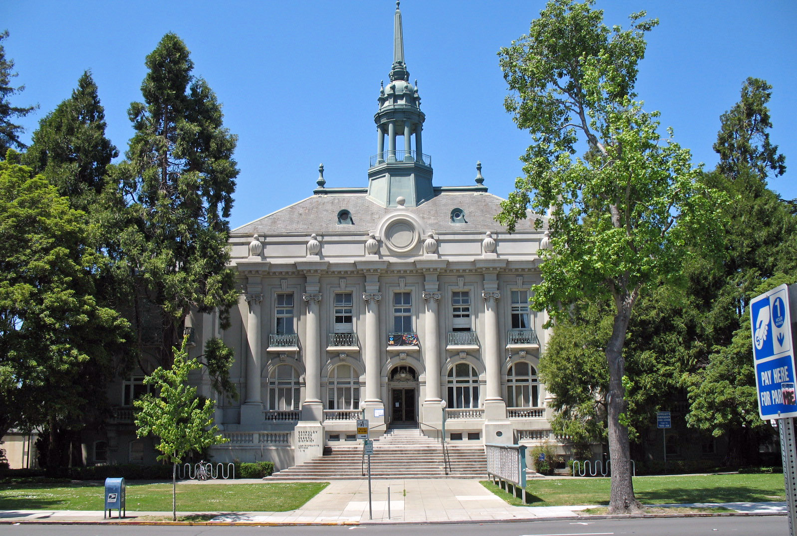 National Register of Historic Places listings in Alameda County, California. Old City Hall, 2134 Martin Luther King Jr Way, Berkeley, CA. Photographed 2009-05-17 from the east side of Martin Luther King Jr. Way between Center St and Allston Way.